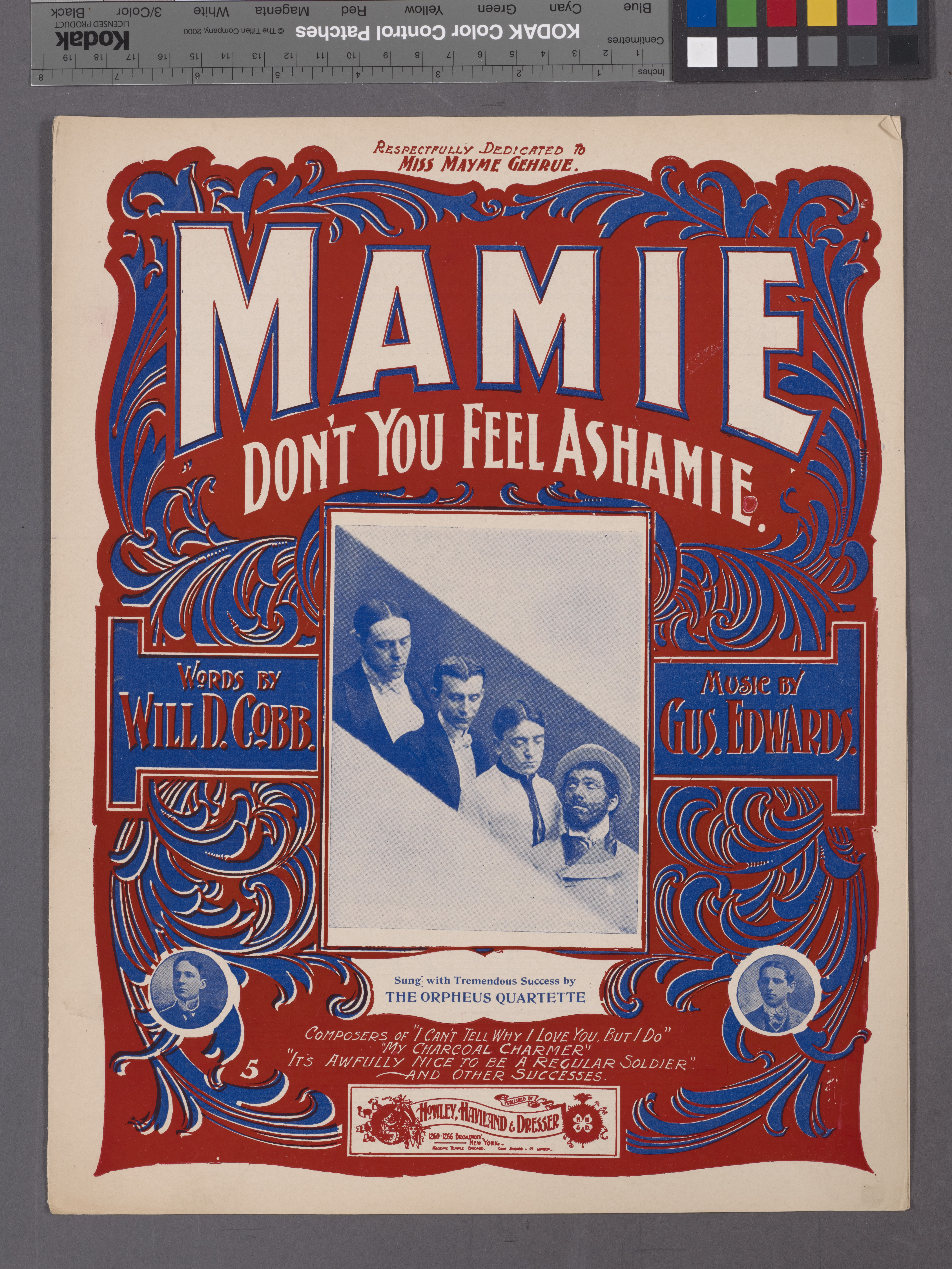 On cover: Photograph of The Orpheus Quartette. On cover: Photographs of Will D. Cobb and Gus. Edwards. Dedication: Dedicated to Mayme Gehrue. Statement of responsibility : words by Will D. Cobb ; music by Gus Edwards.